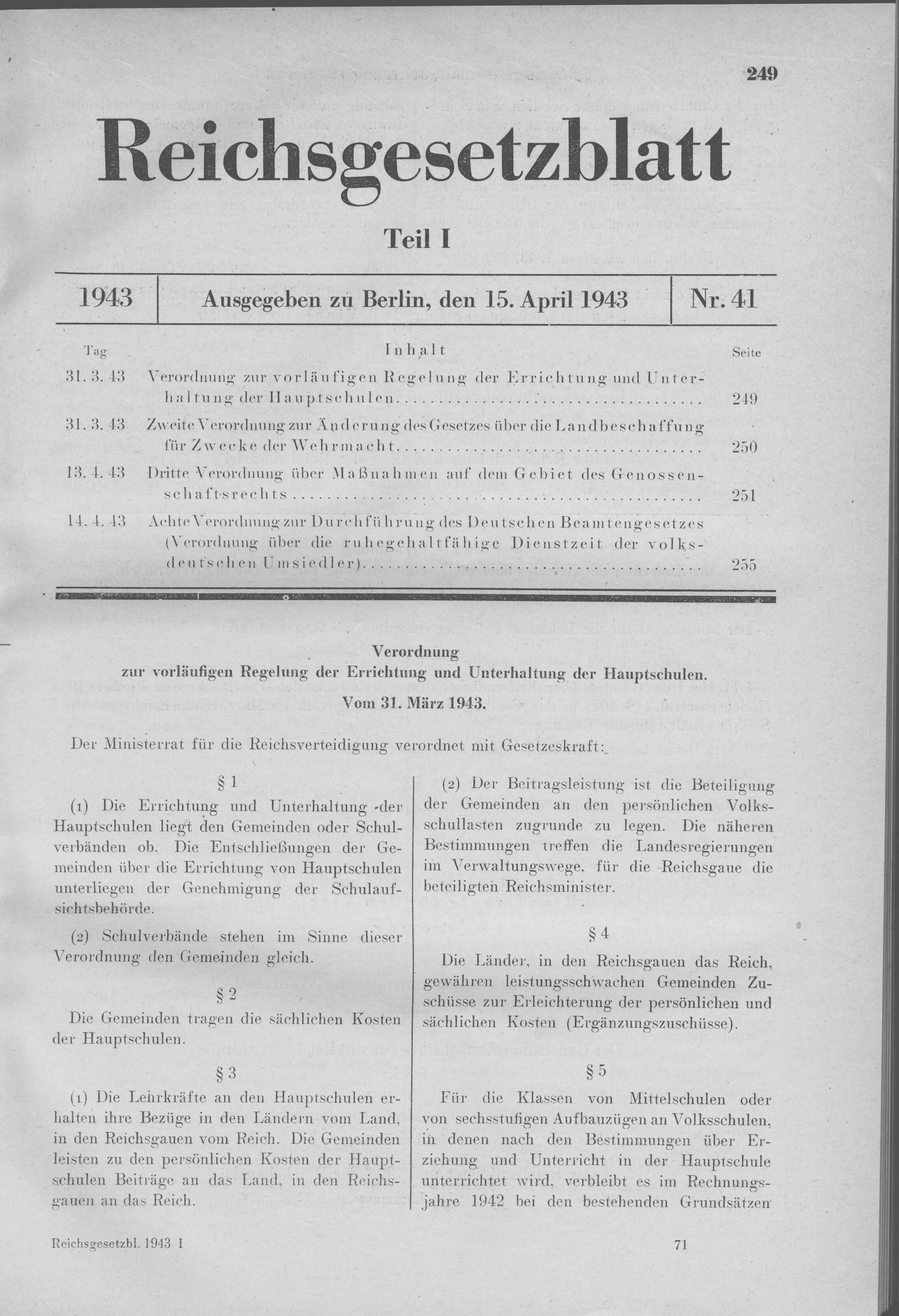 Scan from the Imperial Law Gazette of Germany, 1943, part 1